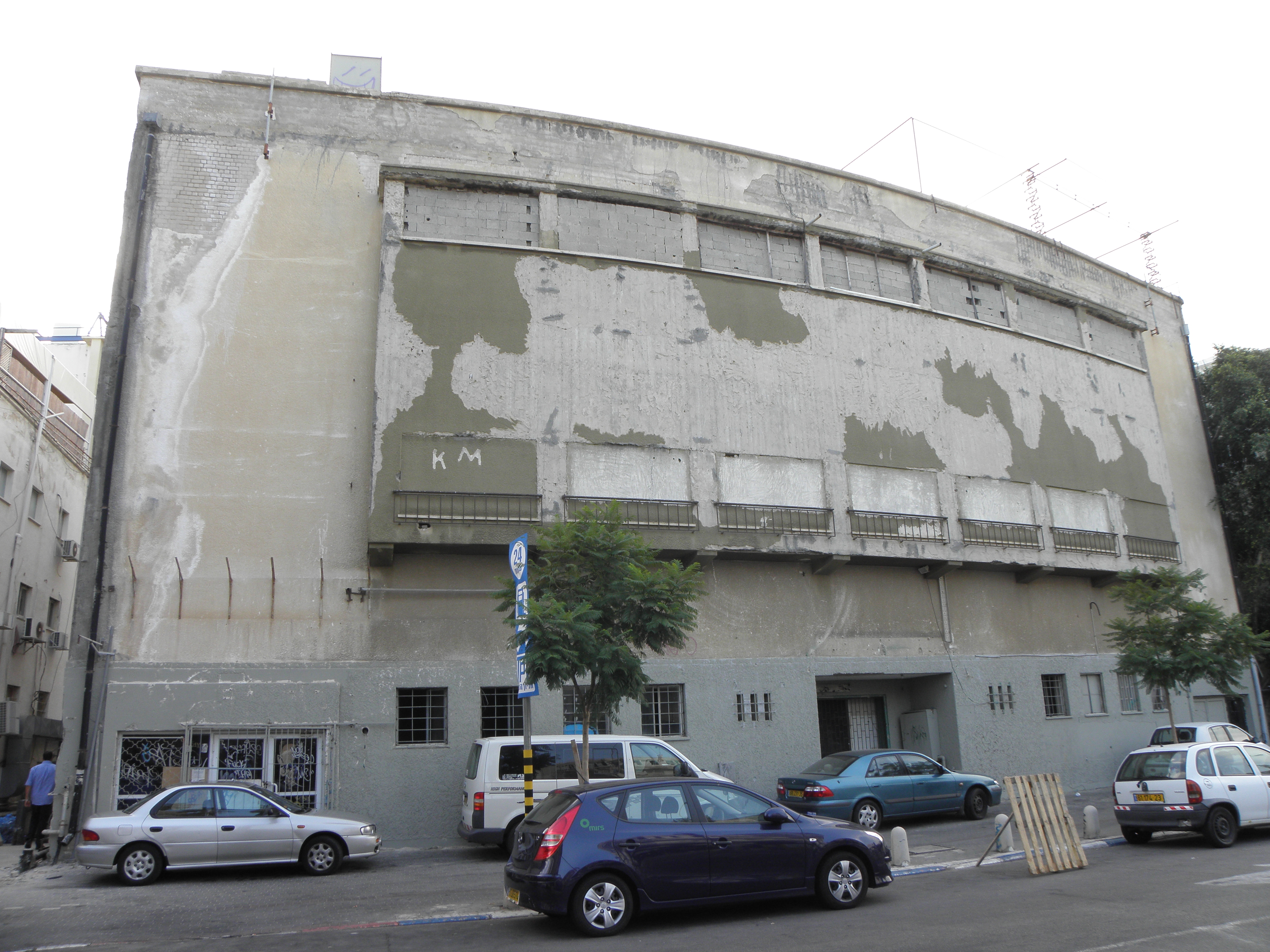 HaOhel Theater, Tel Aviv, 2011